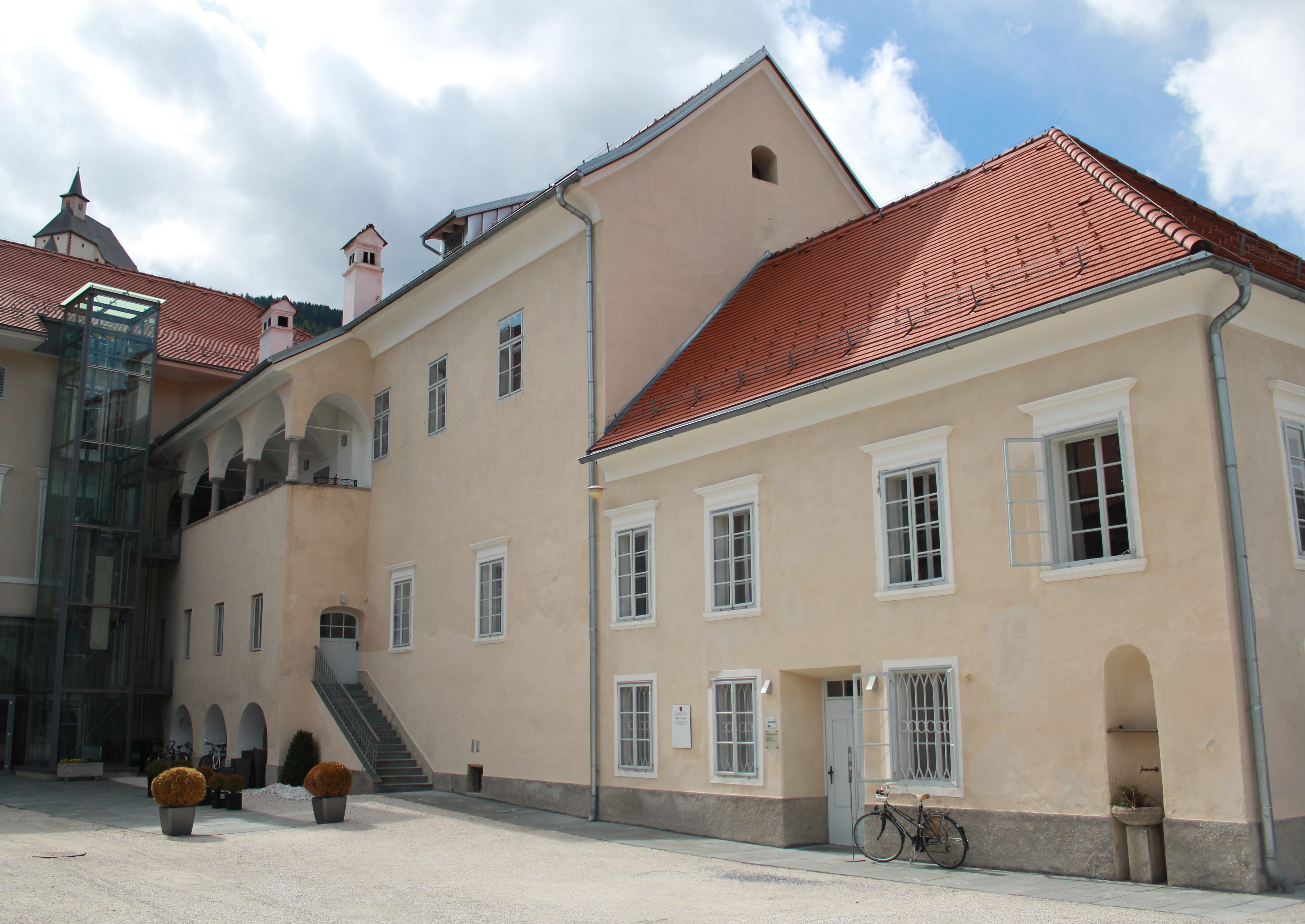 Dukes court in Friesach